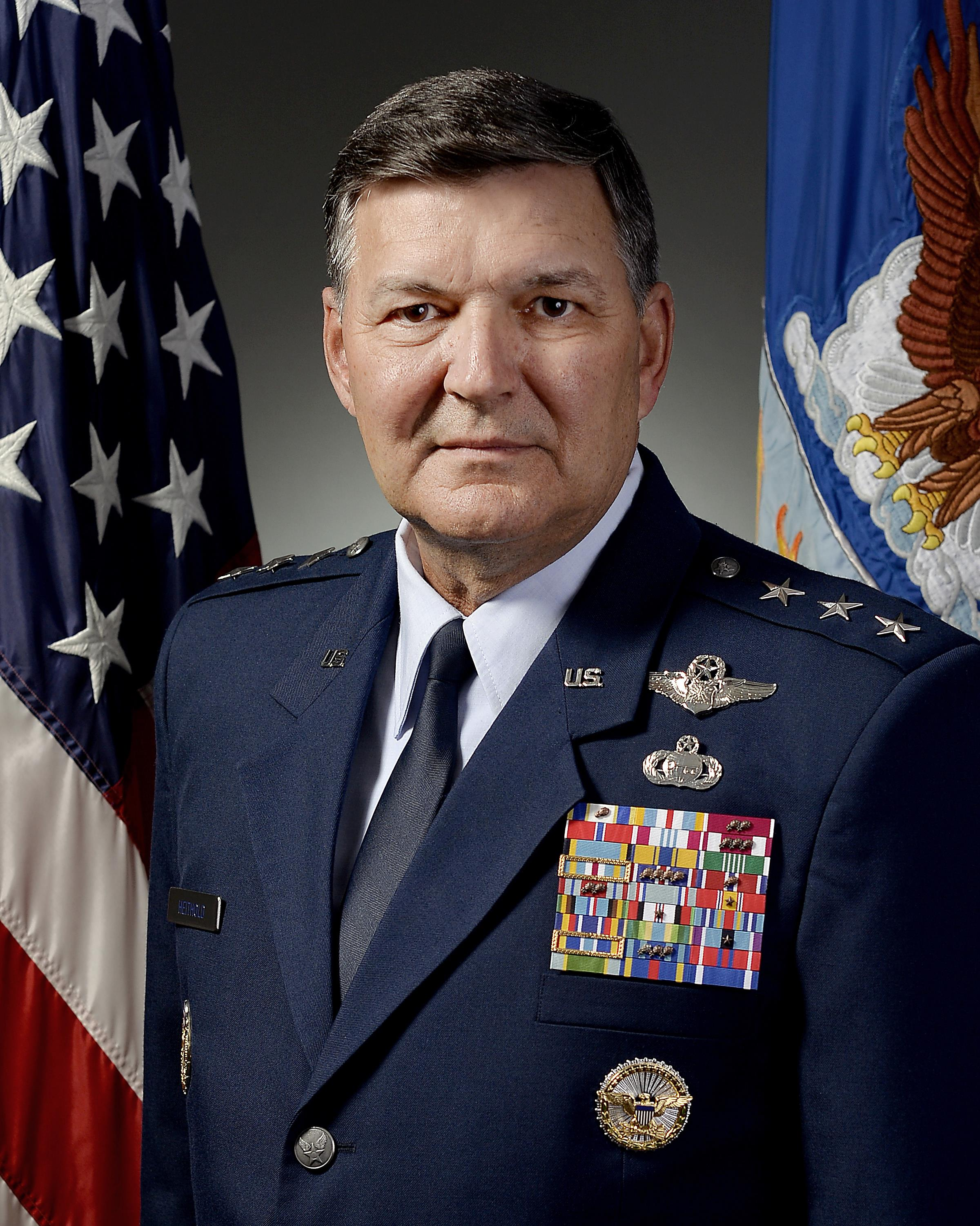 Latest official photo.